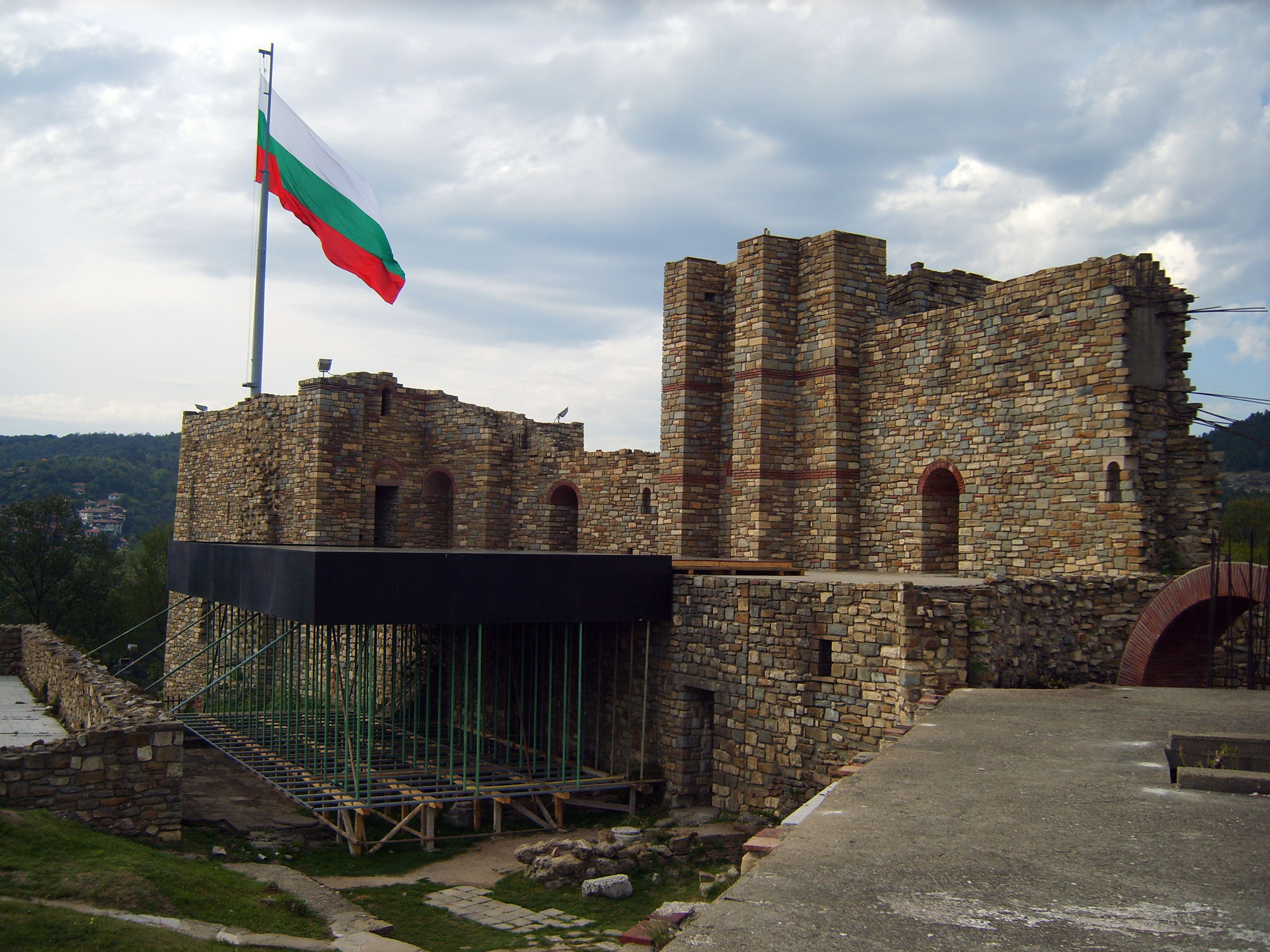 Royal Palace in Tsarevets, Veliko Tarnovo